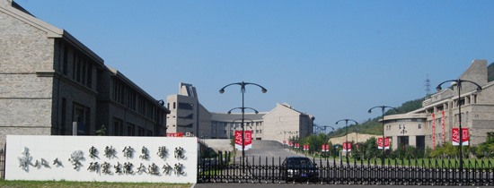 Neusoft Intitute of Information